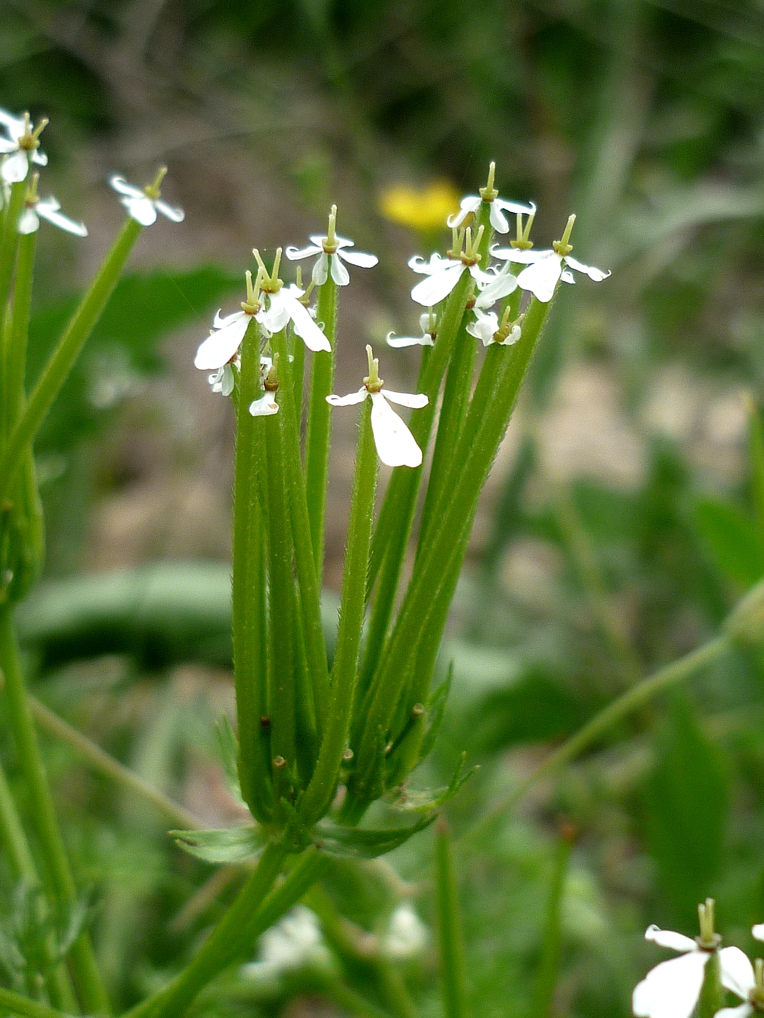 Scandix pecten-veneris. In Torà (Segarra-Catalunya). To 590 m. altitude